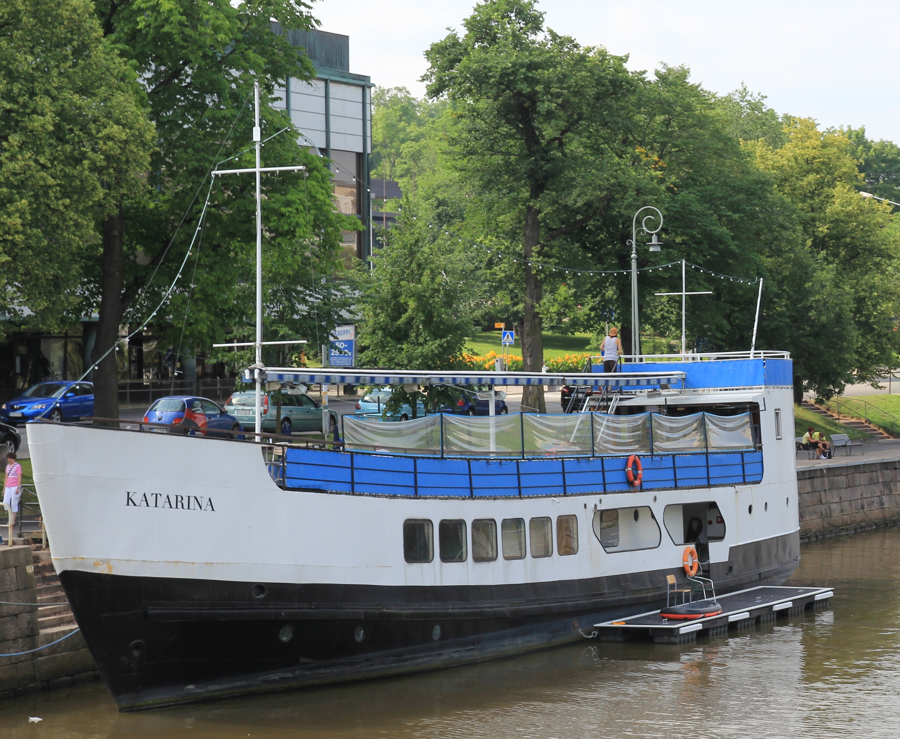 Restaurant ship Katarina in Aura river in Turku. Originally built in 1869 as S/S Fredriksborg.